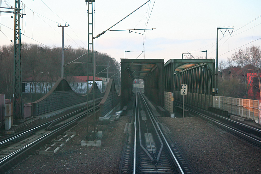 Railway bridges over the Danube river in Ingolstadt, Germany. This picture has been taken from the cab car of a Munich-Nuremberg Express, a regional train between the two cities.